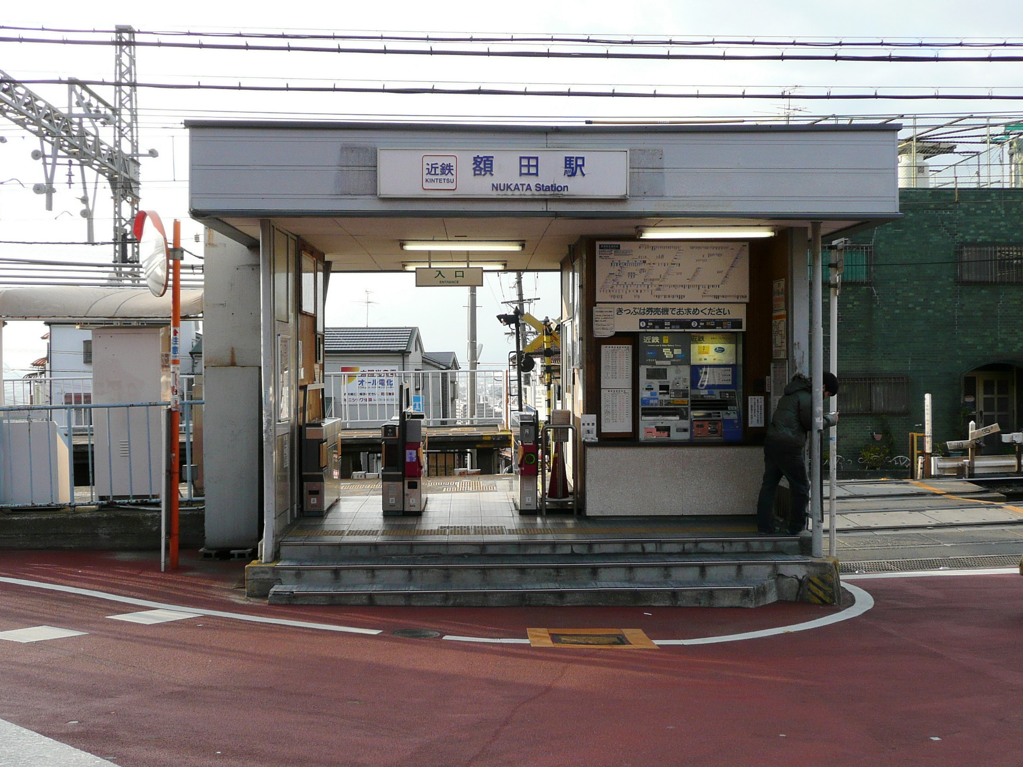 Kinki Nippon Railway,Nara Line,Nukata Station east entrance.